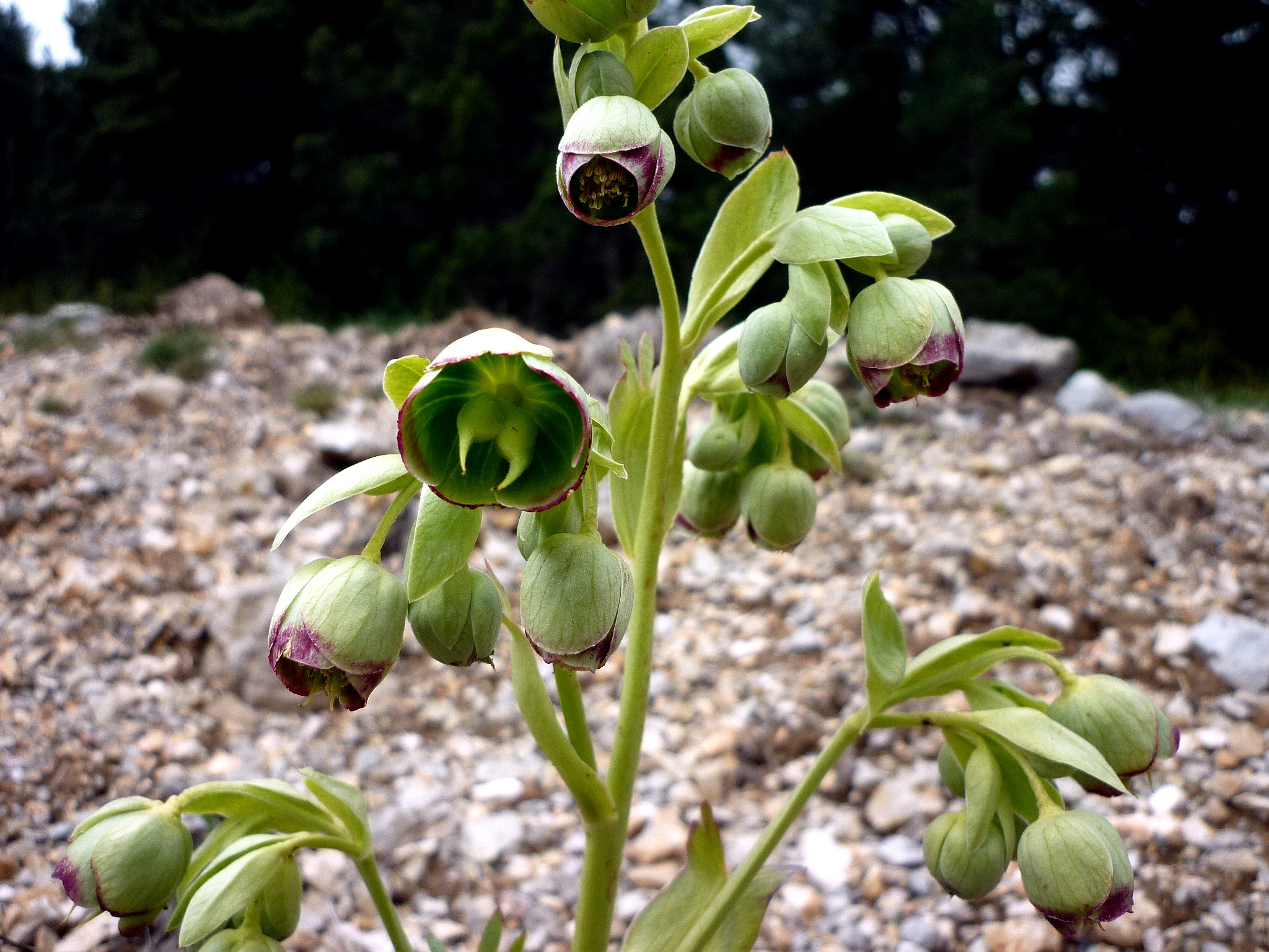 Helleborus foetidus. In la Bòfia, Odèn (Solsonès - Catalunya). To 1.760 m. altitude